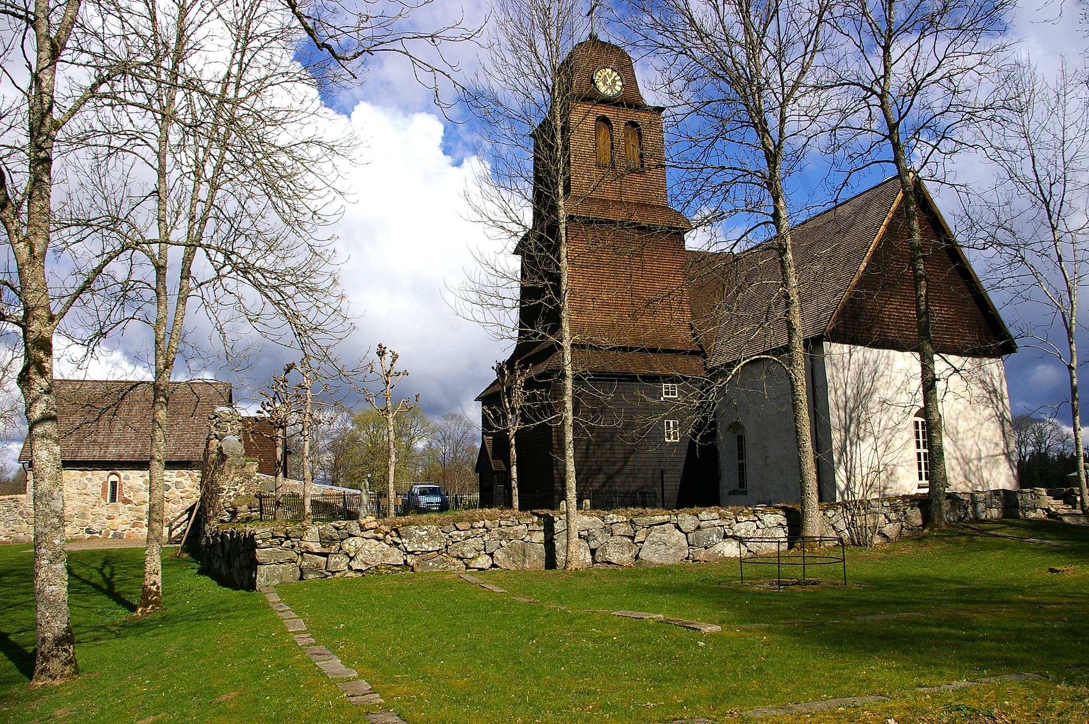 Nydala monastry in Sweden.